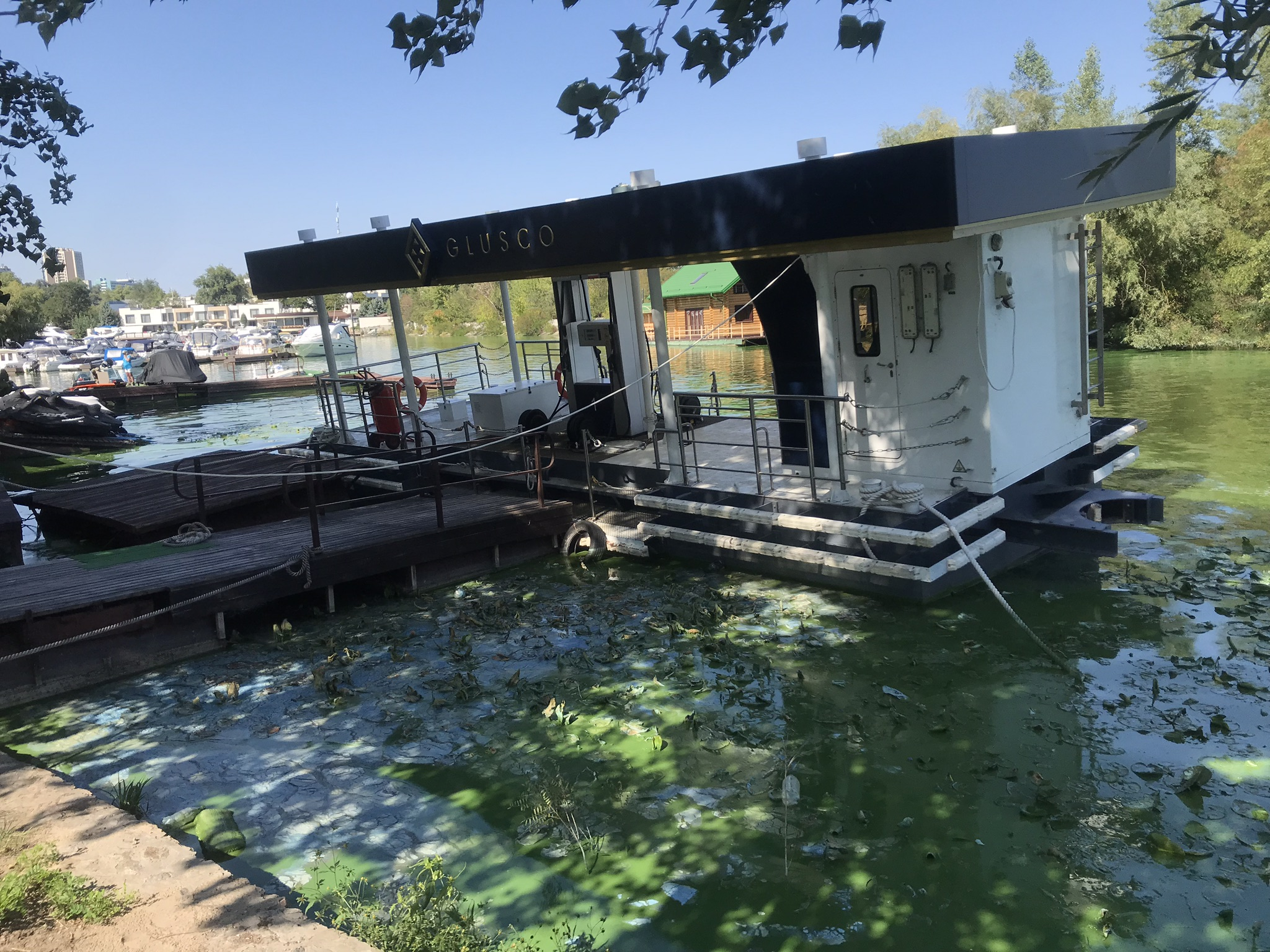 Bartolomeo boat petrol station